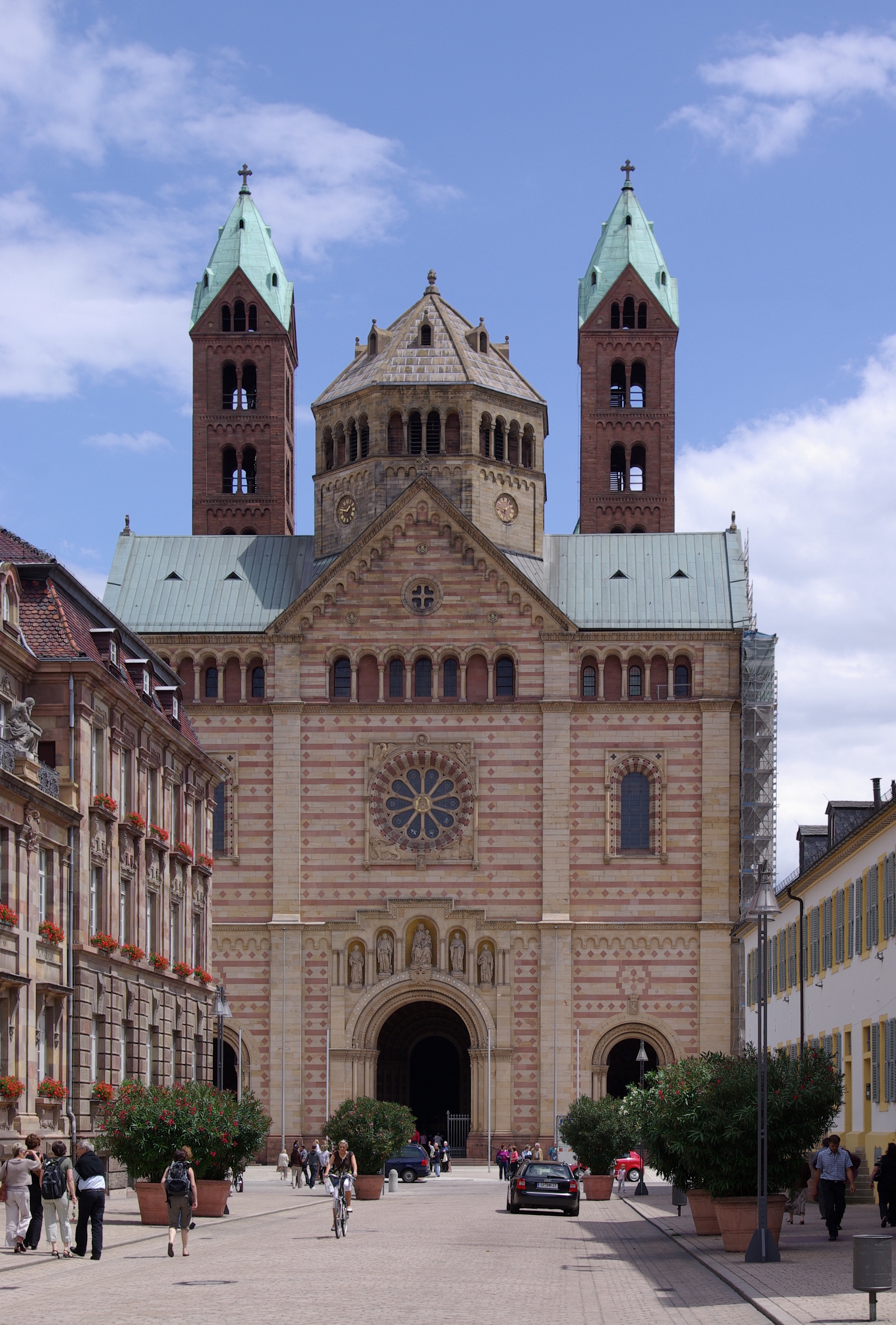 Germany, Speyer cathedral, Facade